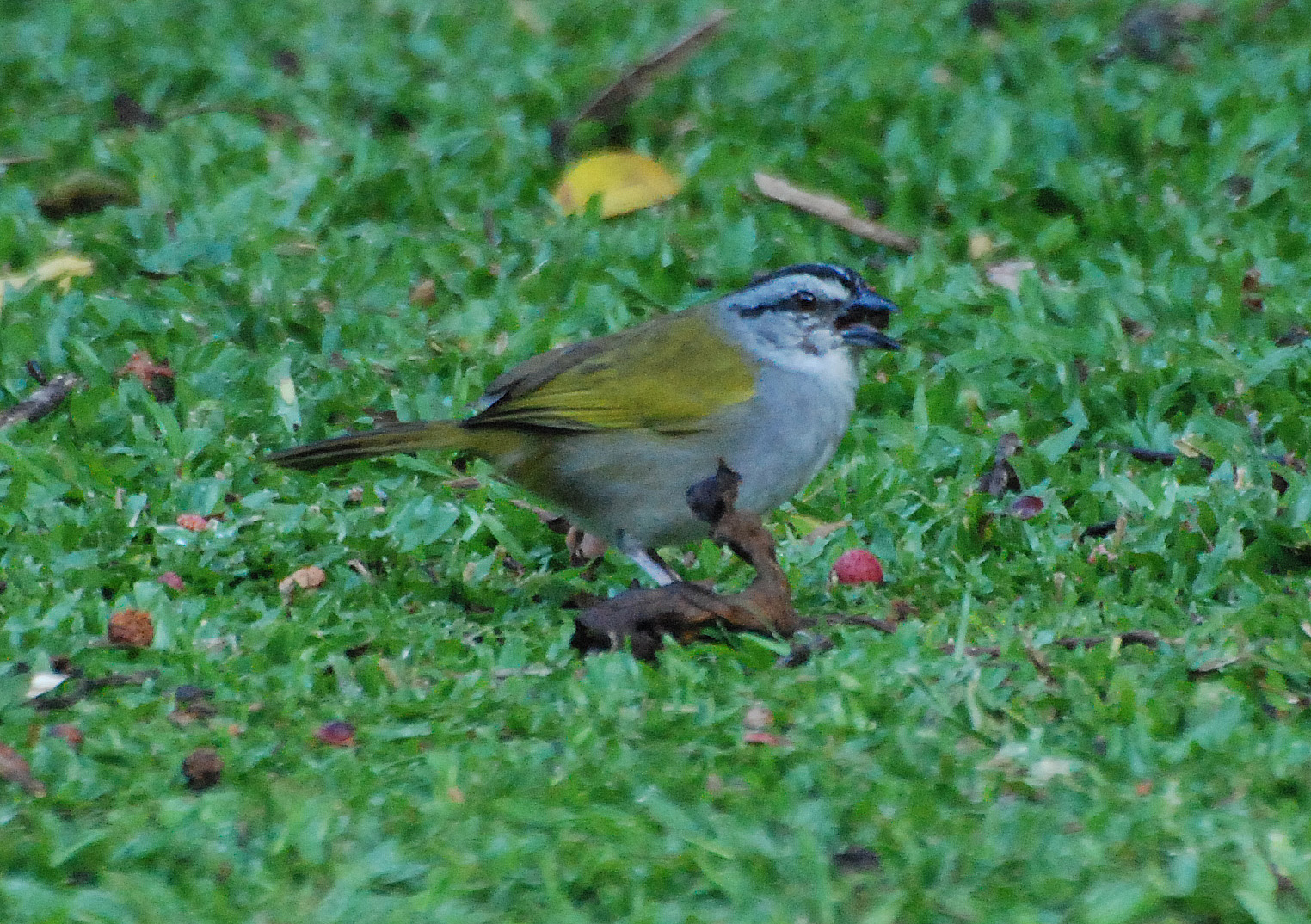 Black-striped Sparrow at the Arenal Volcano Lodge, Costa Rica, 080224. Arremonops conirostris.